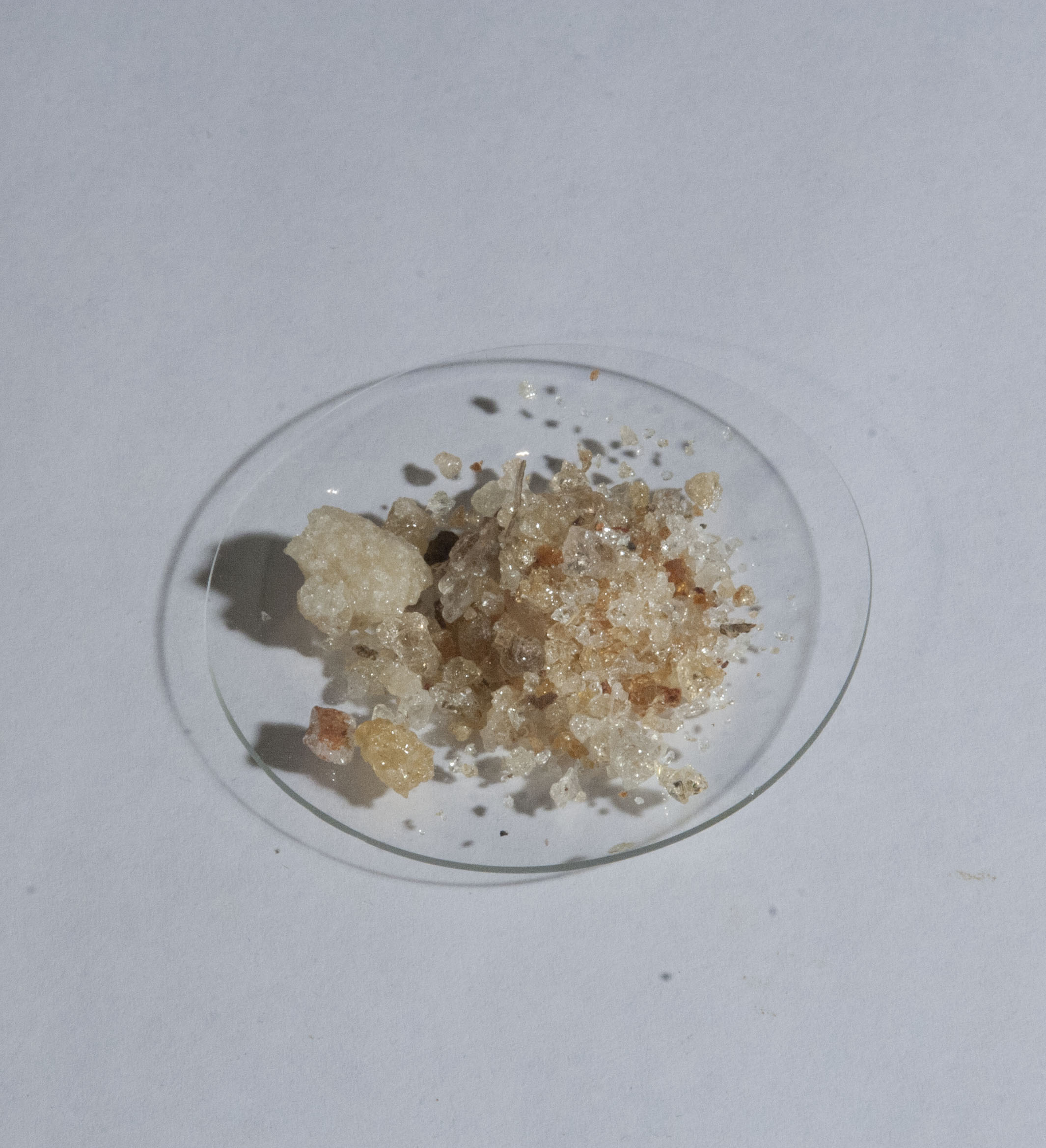 gum arabic